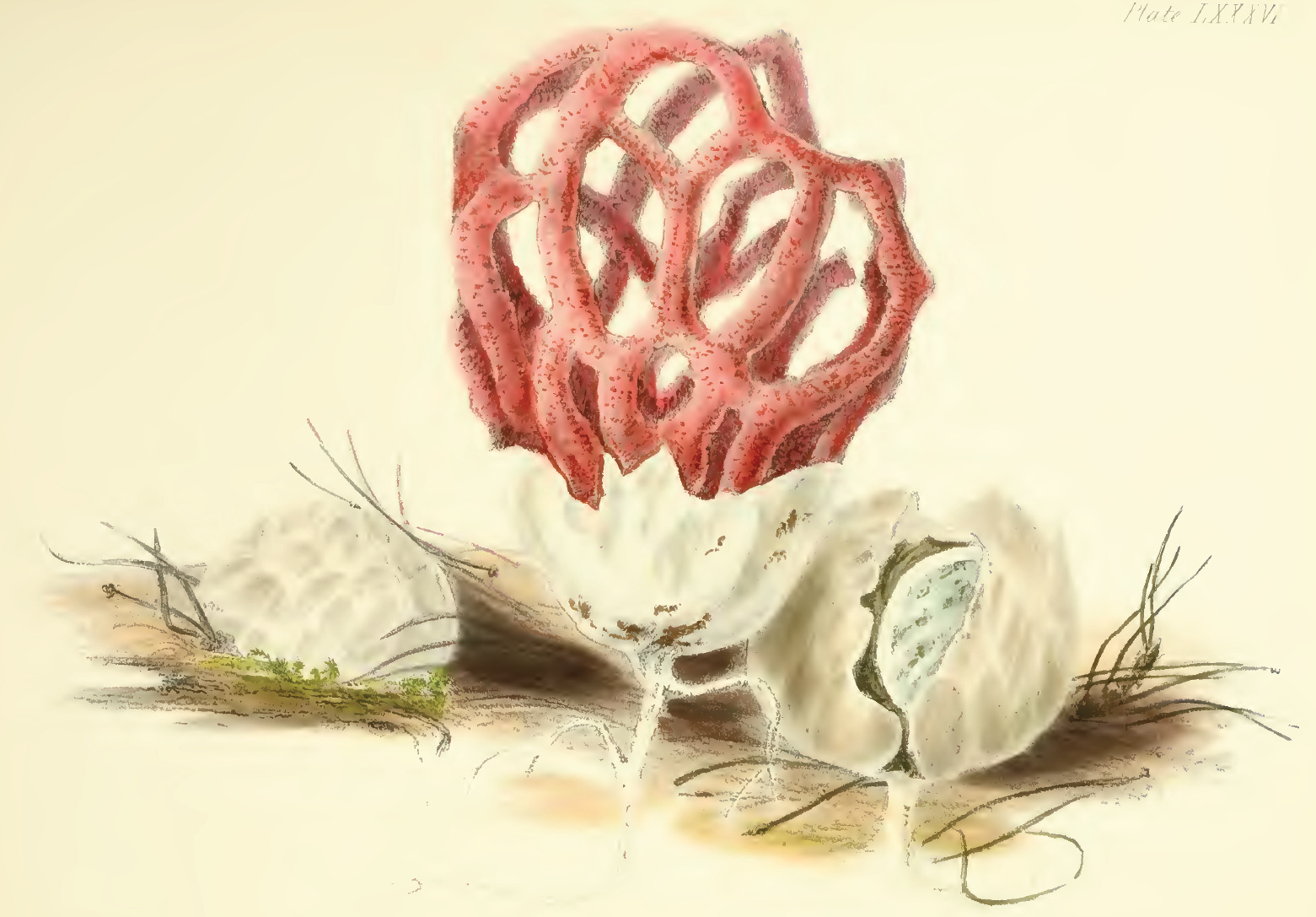 Clathrus ruber